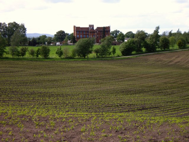 Field to Hankelow Hall